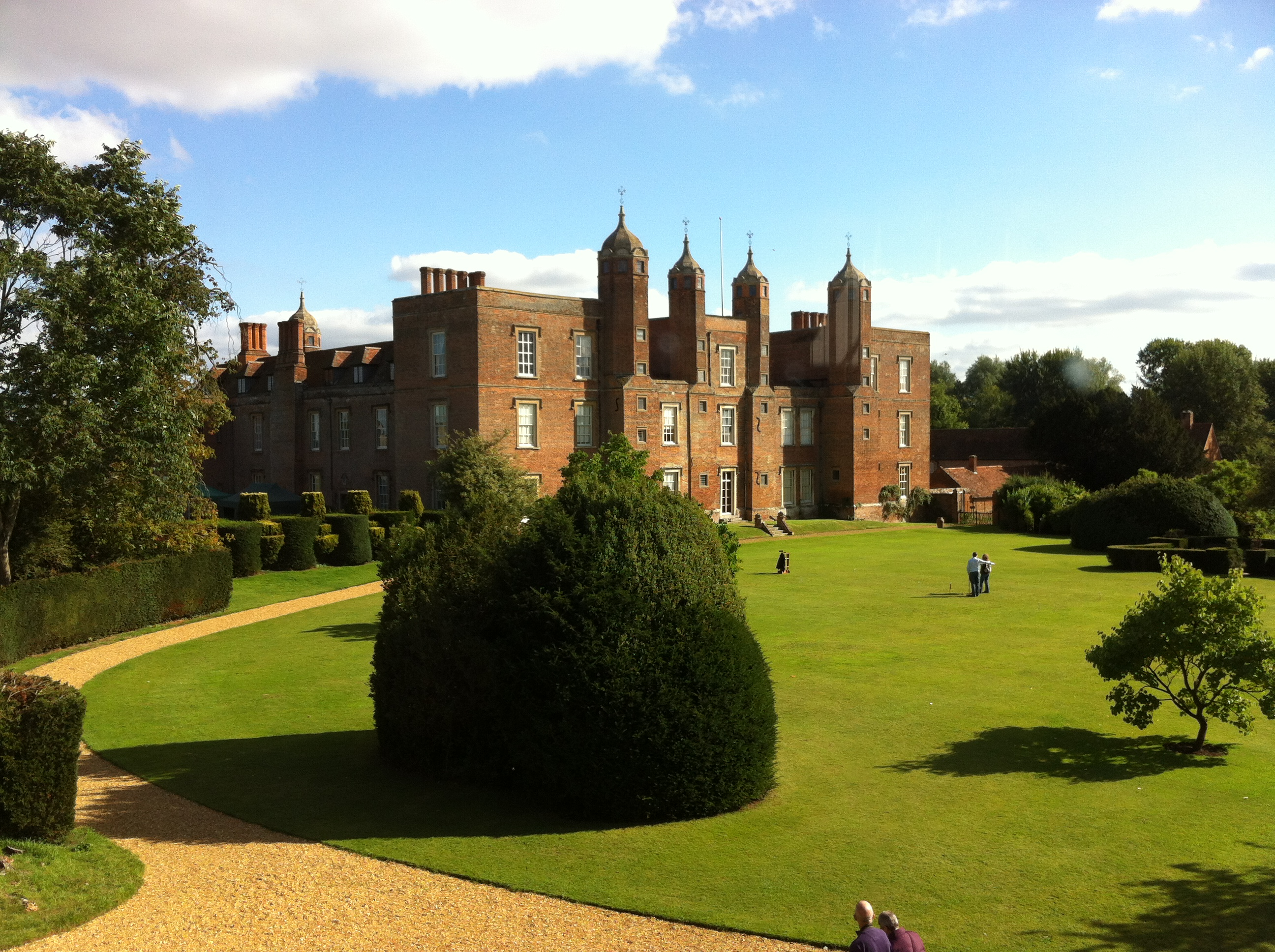 Melford Hall